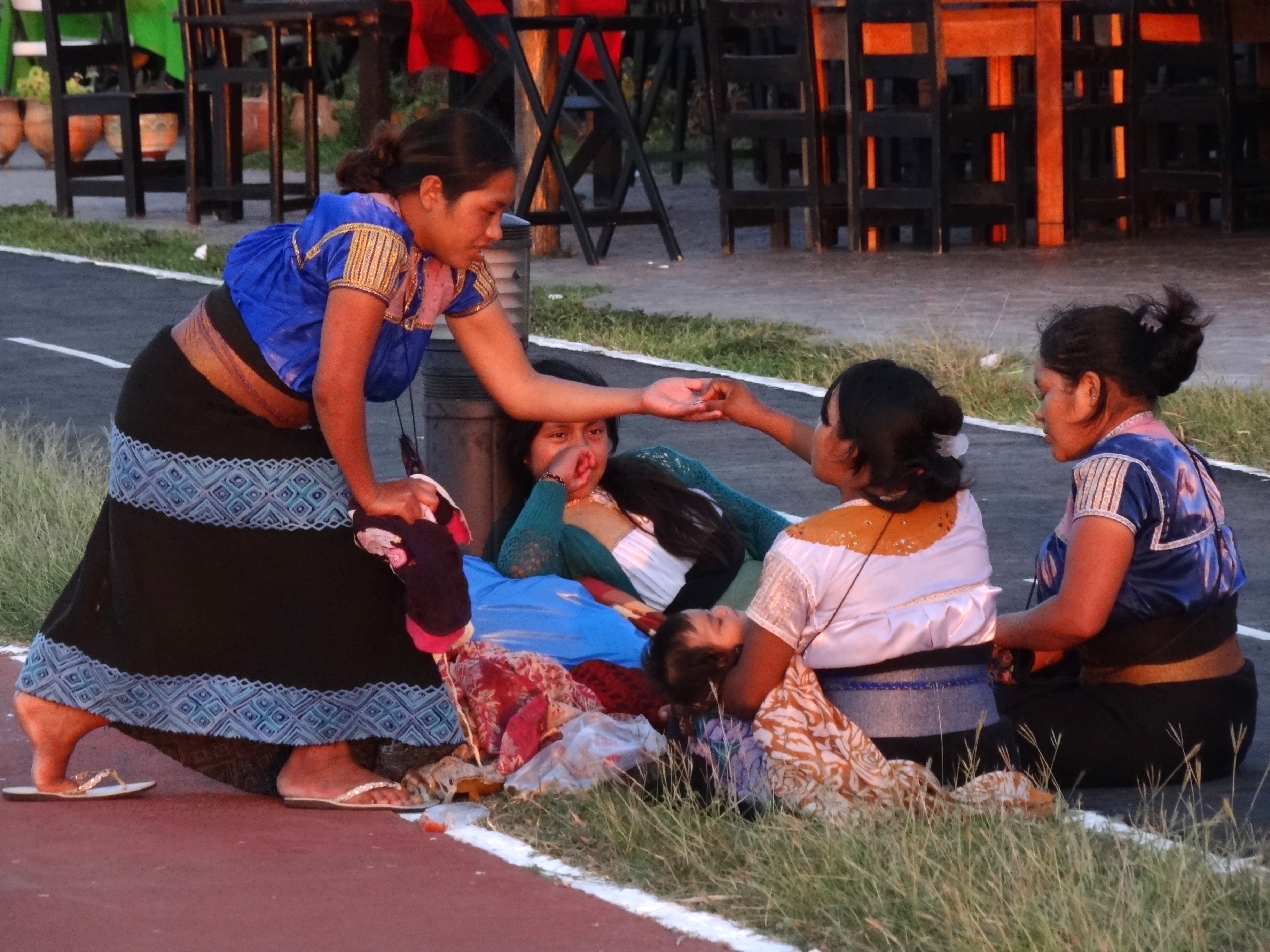 Mayan Family at Roadside - Campeche - Mexico